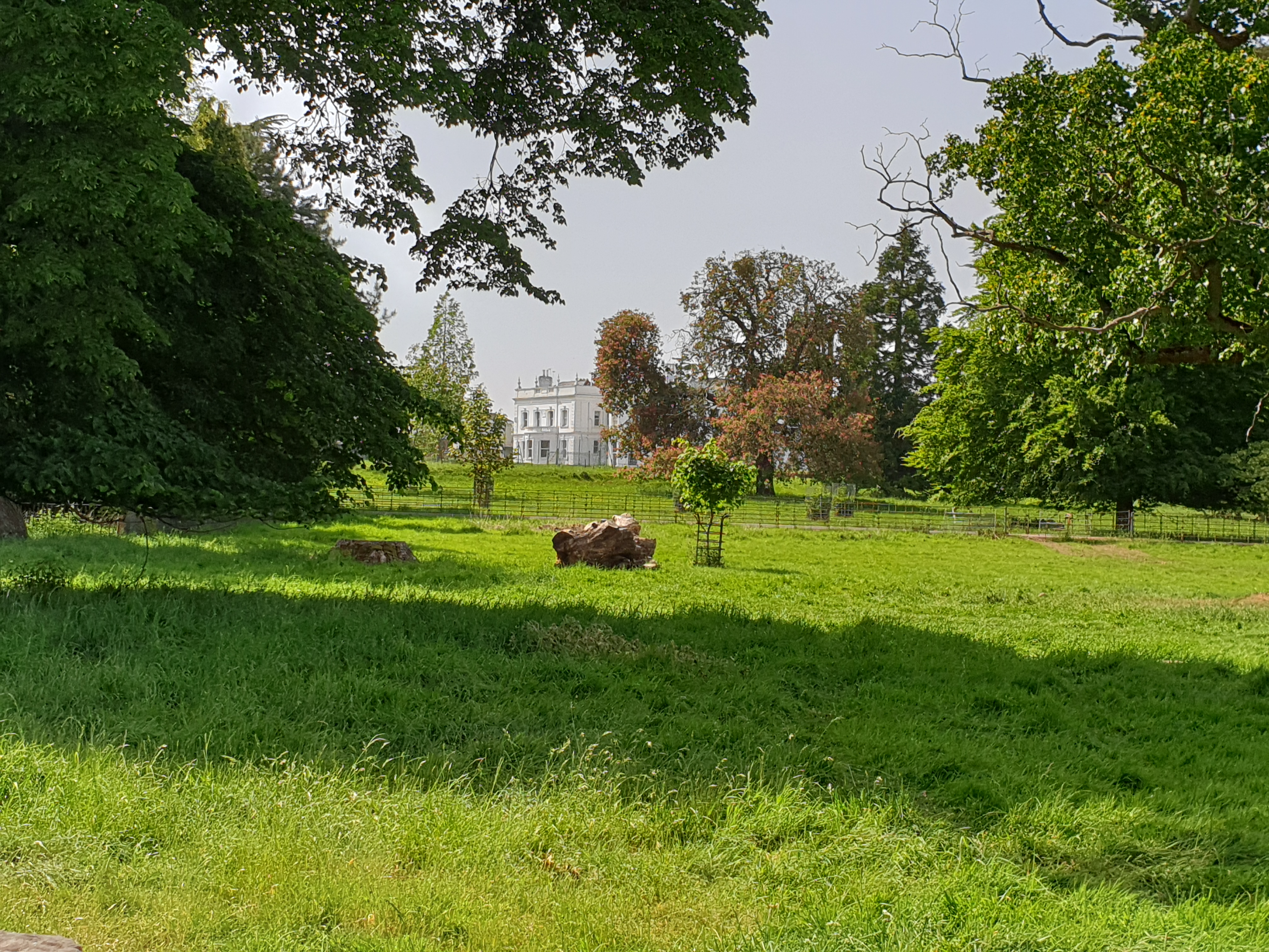 Langford Estate with Langford House in the distance. Picture taken for the south east of the estate